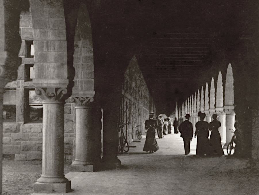 Stanford University campus with students in 1891.